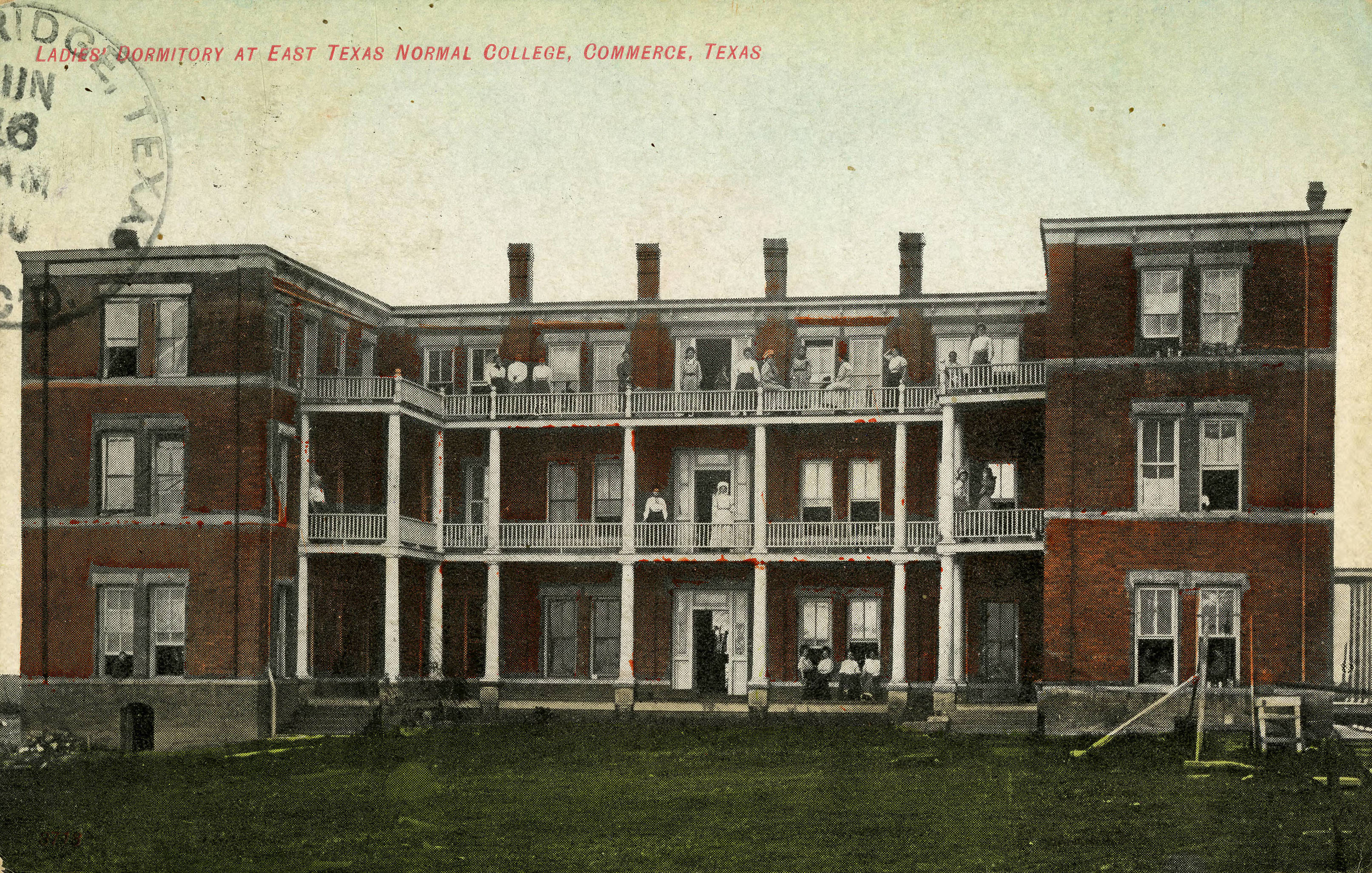 Postcard featuring a photograph of the Ladies Dormitory on the campus of East Texas Normal College.